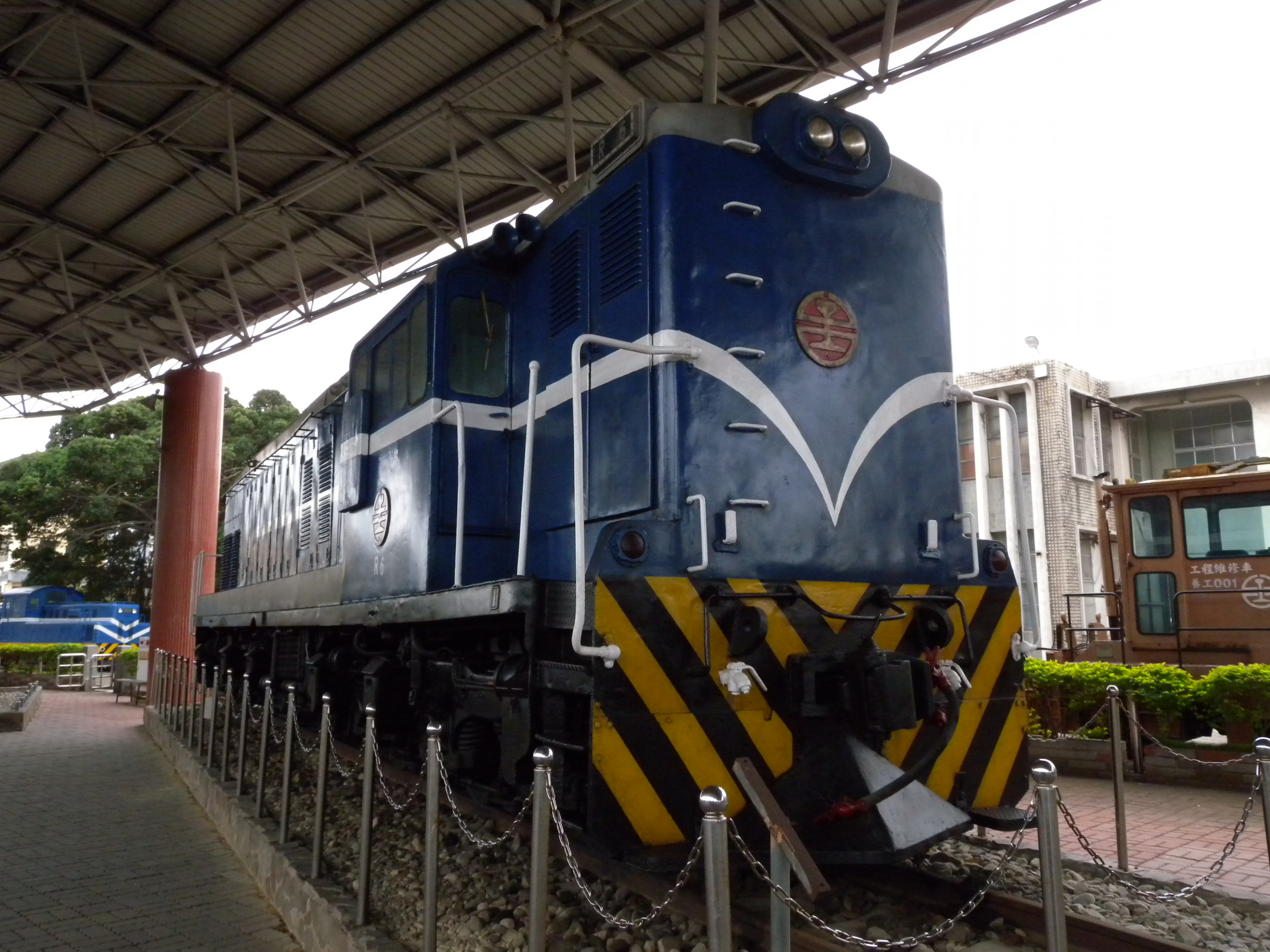 Preserved diesel locomotive TRA R6 at Miaoli Railway Museum. 中文（台灣）: 苗栗鐵道文物展示館之臺灣鐵路管理局柴電機車R6。